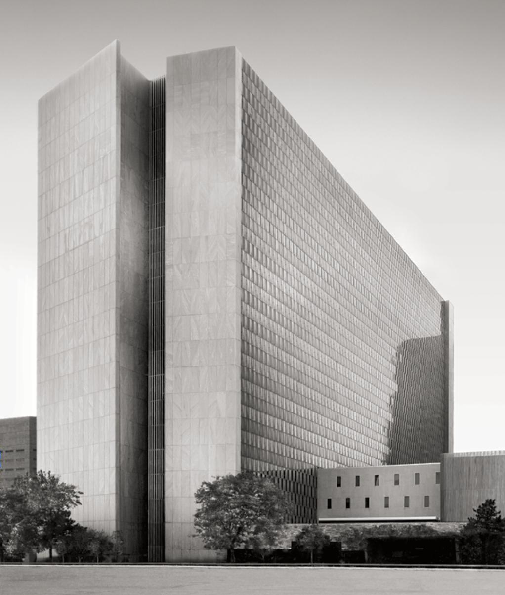 Photograph of the Richard Bolling Federal Building at 601 East 12th Street in Kansas City, Missouri. Architects: Voskamp and Slezak; Everitt and Keleti; Radotinsky Meyn Deardorff; Howard, Needles, Tammen & Bergendoff Construction Dates: 1962-1965 Architectural Style: Sixties Modern Primary Materials: Glass, aluminum, and granite Prominent Features: 18-story office tower; Glass-enclosed entrance pavilions; Landscaped plaza